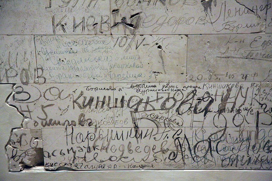 Details of a wall with russian graffiti from WWII at the east entrance of the Reichstag. There is a date tag "20.05.45" in the right part of the image.